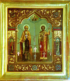 Saint Adrian and Natalia of Nicomedia, early Christian saints (early 4 century)